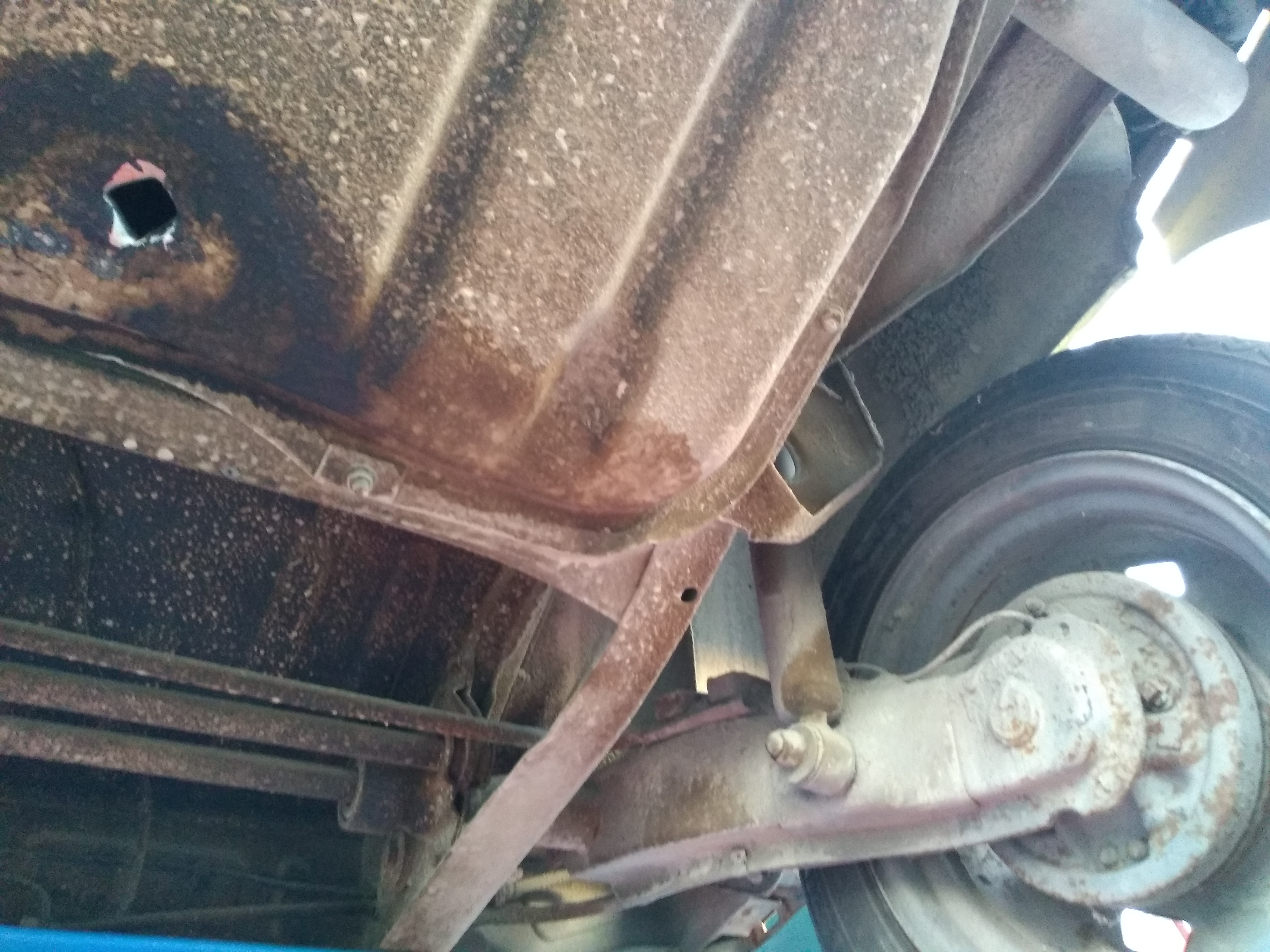 Renault 5 trailing arm and torsion bars